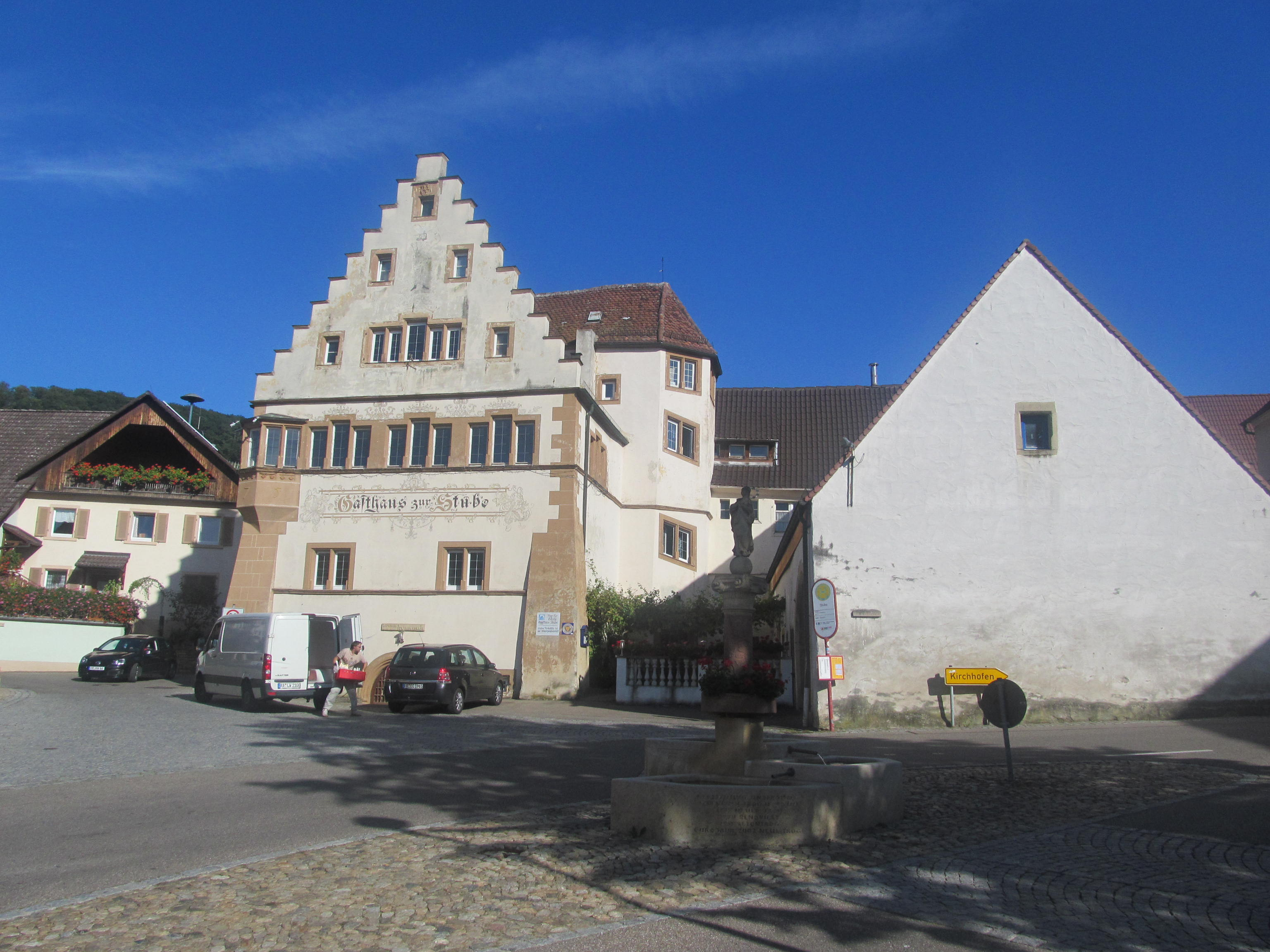 Pfaffenweiler - Townhall